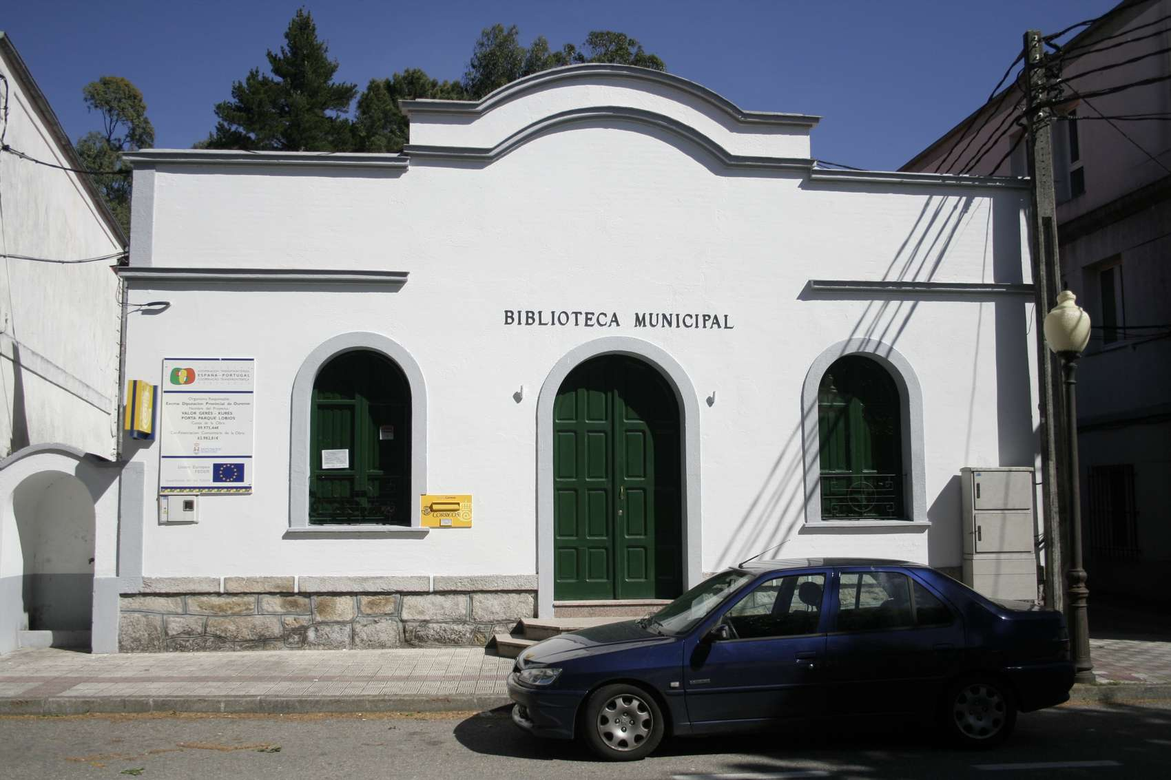 Municipal Library in Lobios (Spain)